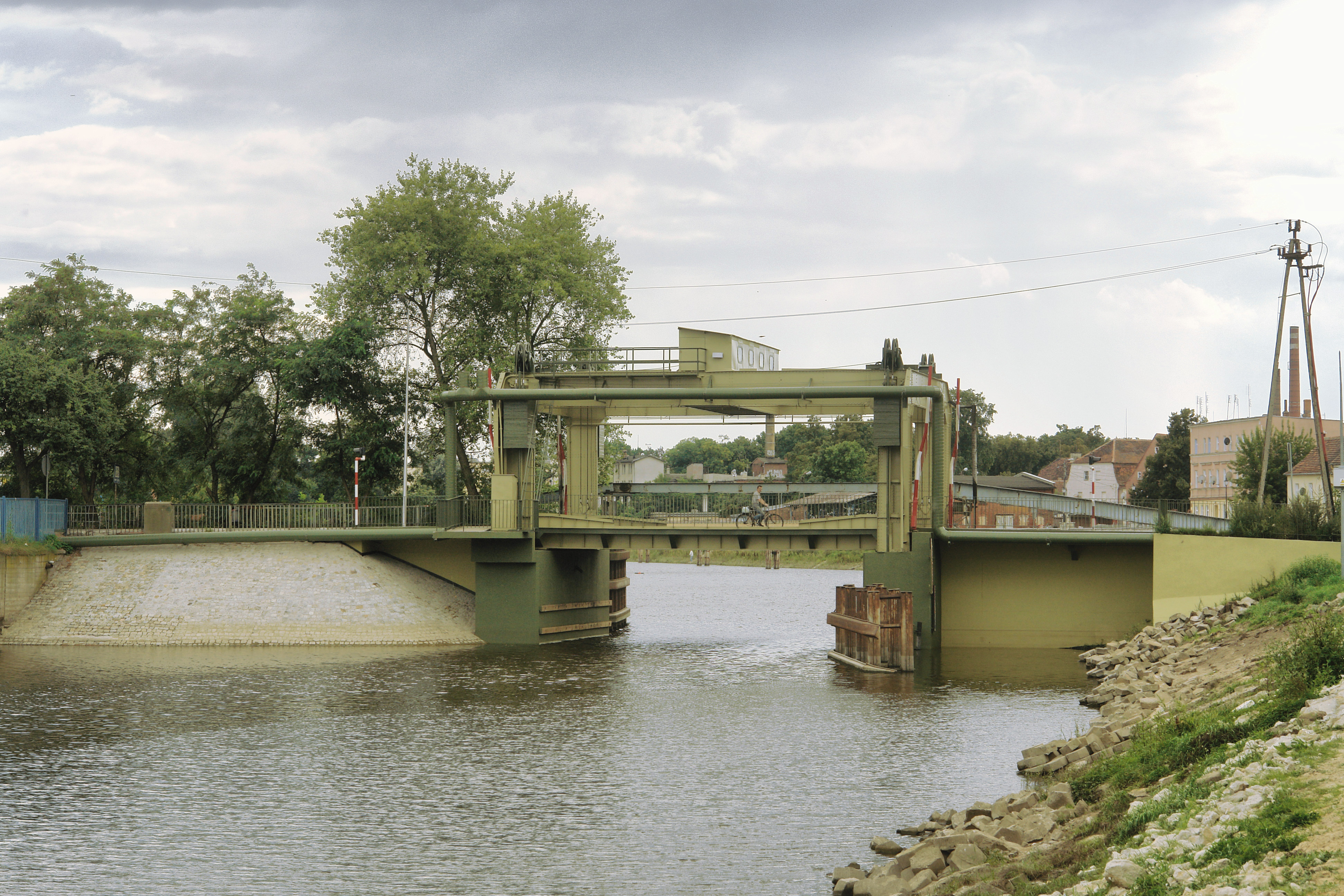 The vertical-lift bridge in Nowa Sól, Poland